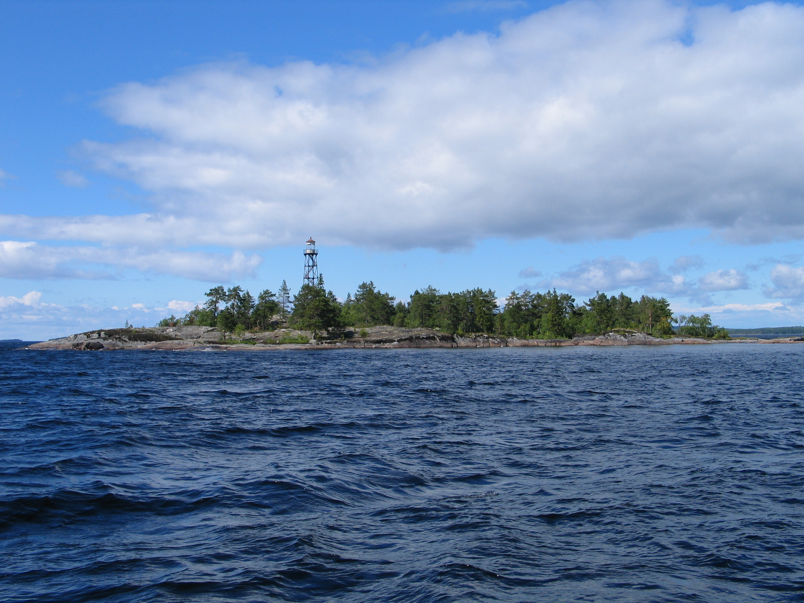 Sosnovets Island in the Onega Lake, Russia